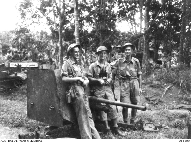 AWM caption : Malaya: Johore, Muar Area, Bakri. A two pounder Anti-Tank Gun of the 4th Anti-Tank Regiment, 8th Australian Division, AIF, directed by VX38874 Sergeant (Sgt) Charles James Parsons, of Moonee Ponds, Vic (centre), with two crew members, identified as Gunner (Gnr) Len Coutts and Gnr Ken Daniels, standing against their Anti-Tank Gun in a clearing near the road block at Bakri on the Muar-Parit Sulong Road. The Anti-Tank Gun was known as the rear gun because of its position in the defence layout of the area. Sgt Parsons was later awarded the Distinguished Conduct Medal (DCM) for his and his crew's part in destroying six of the nine Japanese tanks during this engagement. This photograph also appears as negative no 068589. Comment : This was part of the Battle of Muar.